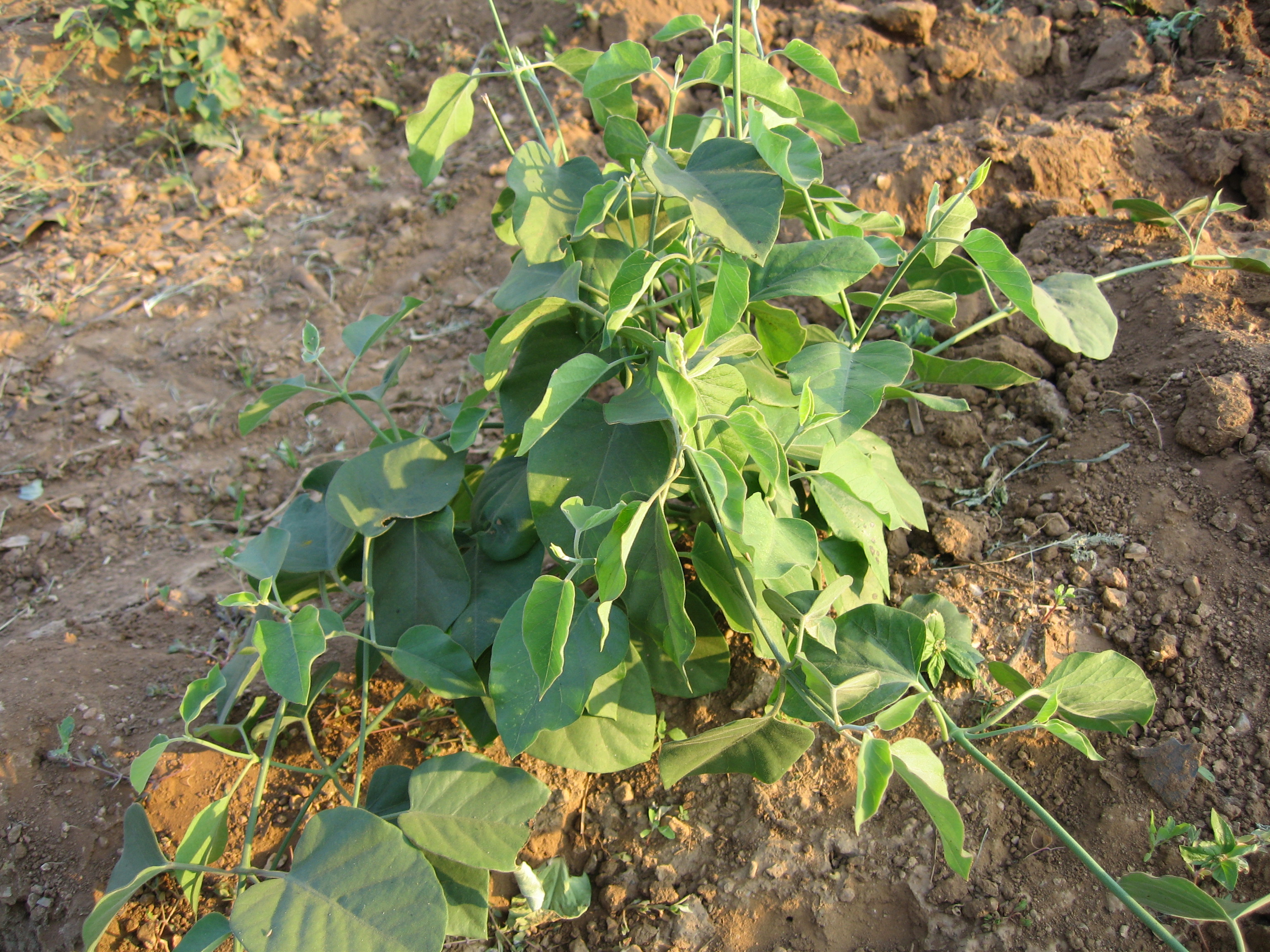 Asclepiadaceae Dodabel , Cultivated, stem used in crease the milk yield.